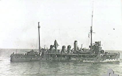 AWM caption : Indian Ocean. An unidentified Royal Navy Bramble class gunboat (possibly Gunboat Rinaldo [sic. ?]) in the Indian Ocean off the mouth of the Rufigi River in German East Africa. This ship was requested by Vice Admiral H King-Hall to strengthen the British blockade of the German Navy cruiser SMS Konigsberg. The Konigsberg had taken shelter in the river, south of Dar es Salaam, in December 1914 and withstood the blockade until finally destroyed by HMS Severn on 12 July 1915.